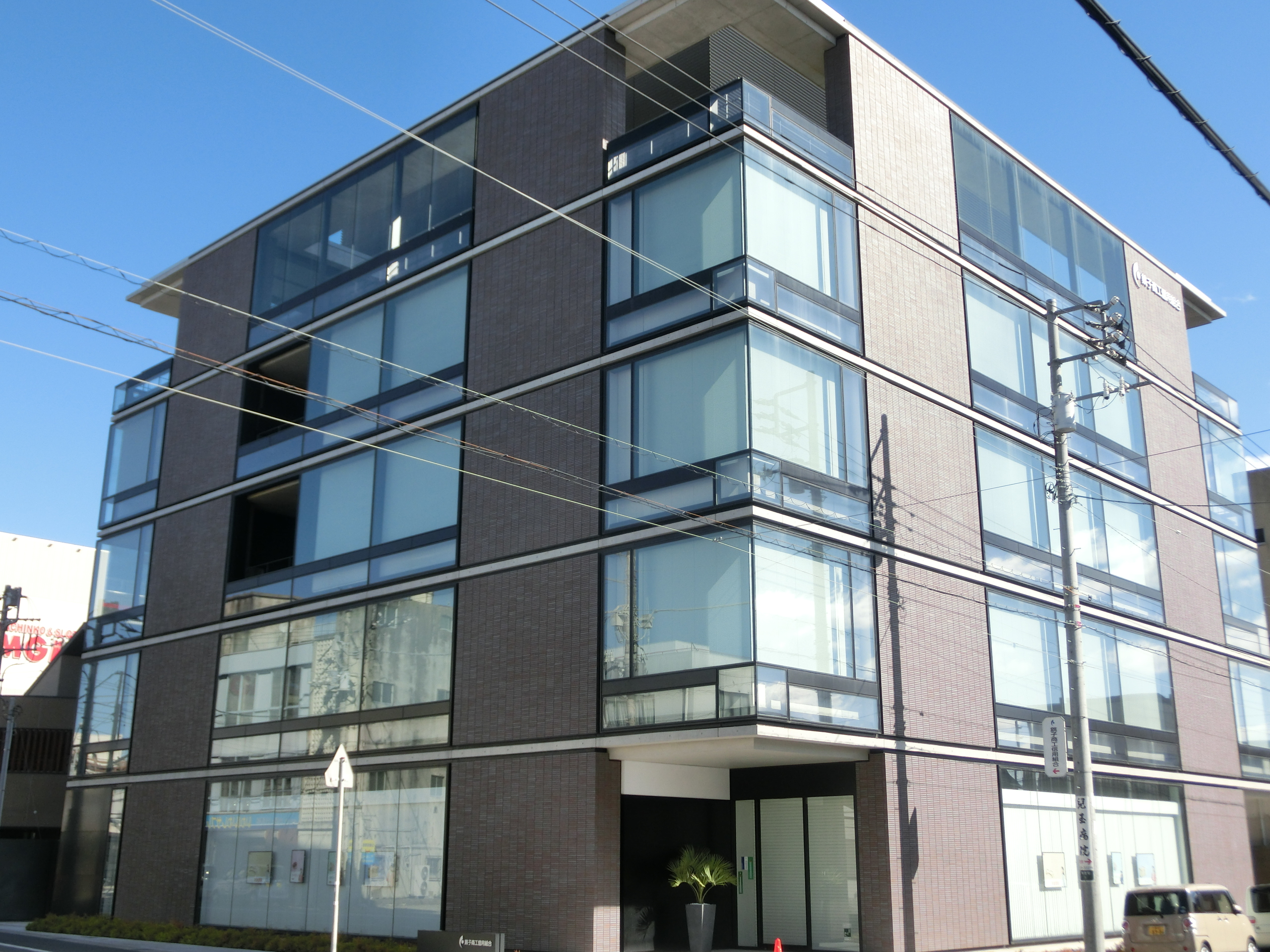 Choshi Shoko Credit Union Head Office